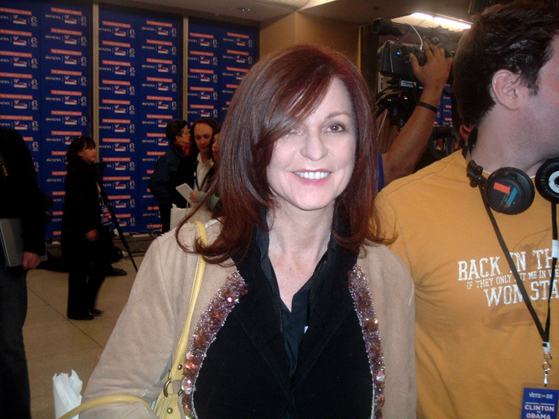 Maureen Dowd at Democratic Debate in Philadelphia, PA April 16, 2008